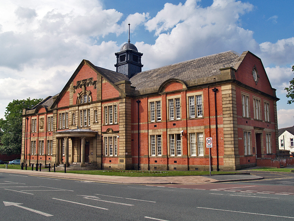 The former Farnworth Town Hall on Market Street, Farnworth, Greater Manchester, England.